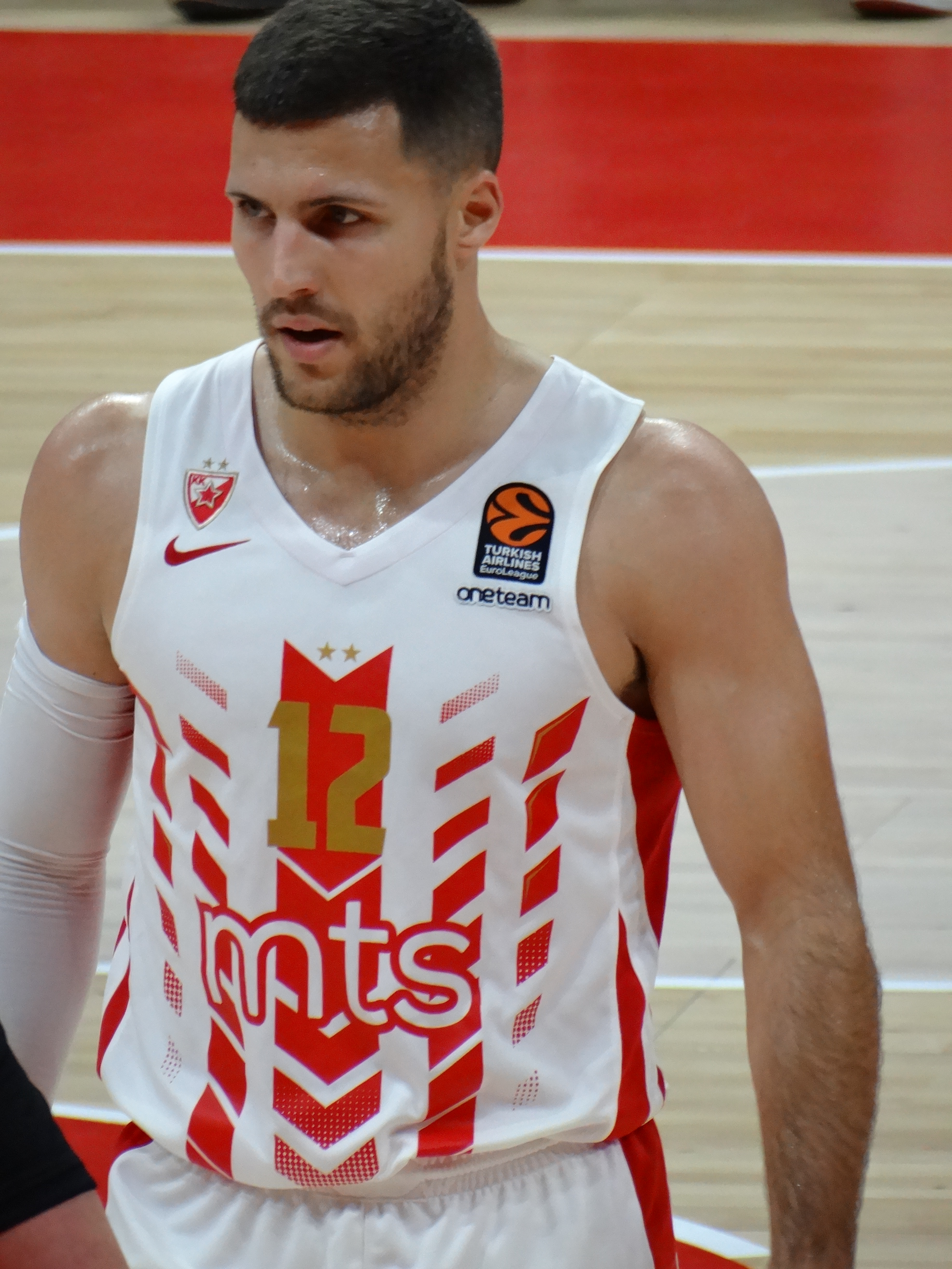 Billy Baron 12 KK Crvena zvezda EuroLeague 20191010